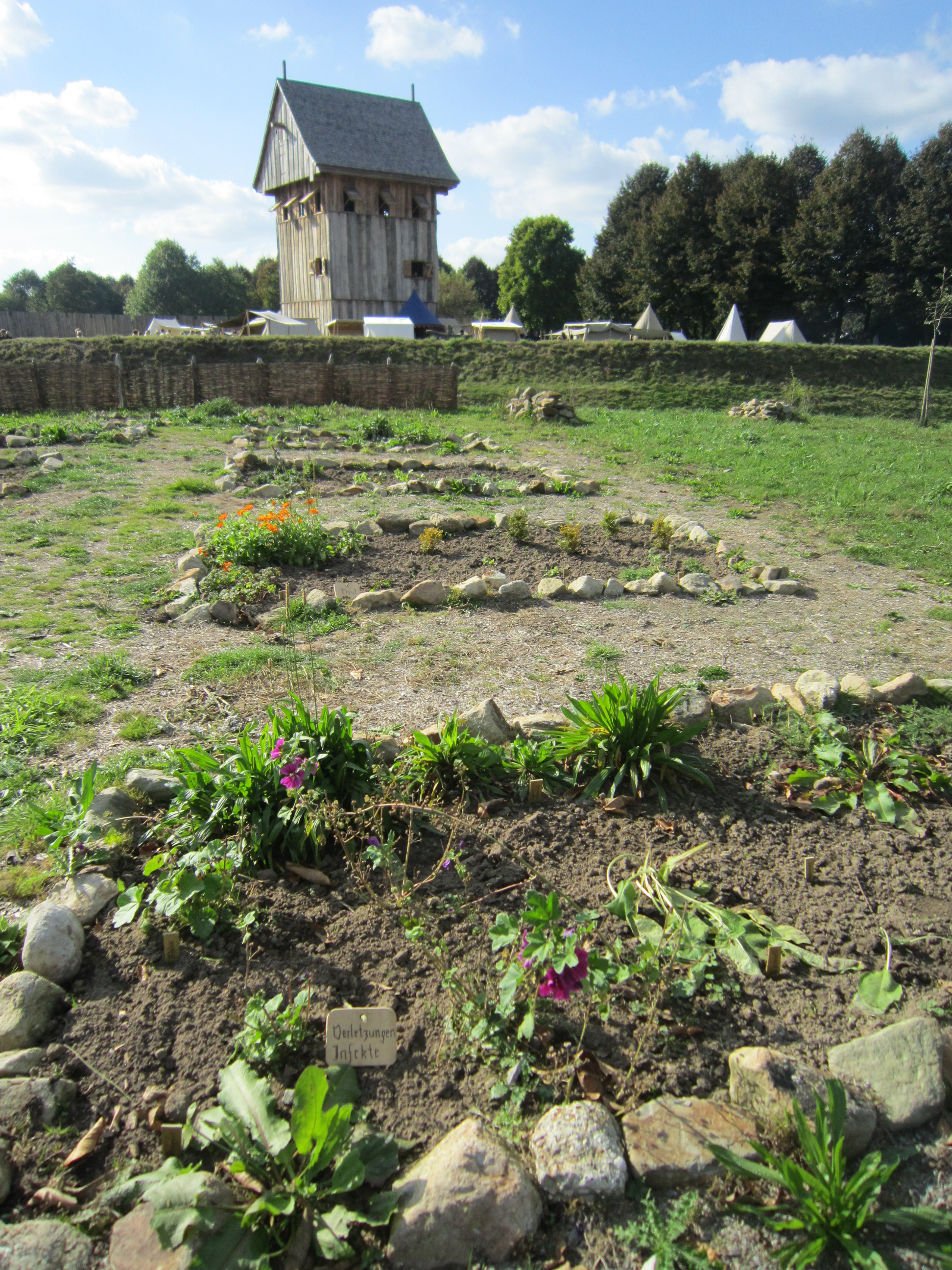 Reconstructed medieval castle "Castrum Vechtense" in Vechta, Lower Saxony. In the foreground the garden island.